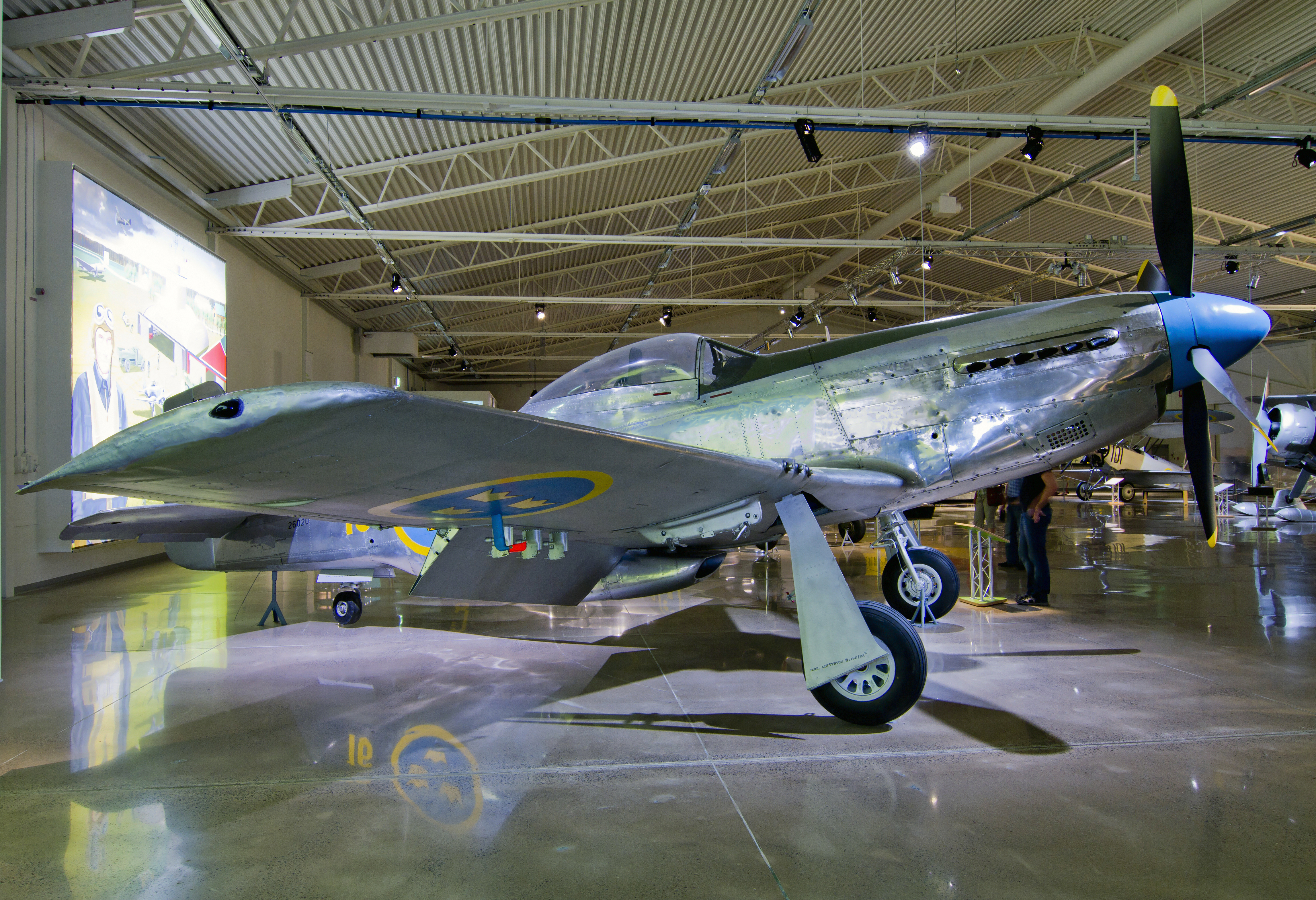 A North American P-51D-20-NA Mustang (c/n 26020, s/n 44-63992, Swedish Fv26020, Israeli 58) at the Flygvapenmuseum. More than 160 Mustangs were operated by the Swedish Air Force. As no planes were kept in Sweden, this Mustang was brought back from Israel in 1979 and is now on display at the Flygvapenmuseum at Linkping, Sweden.